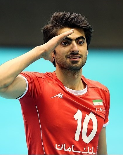 Ghafour in a friendly match vs. Australia, Tehran